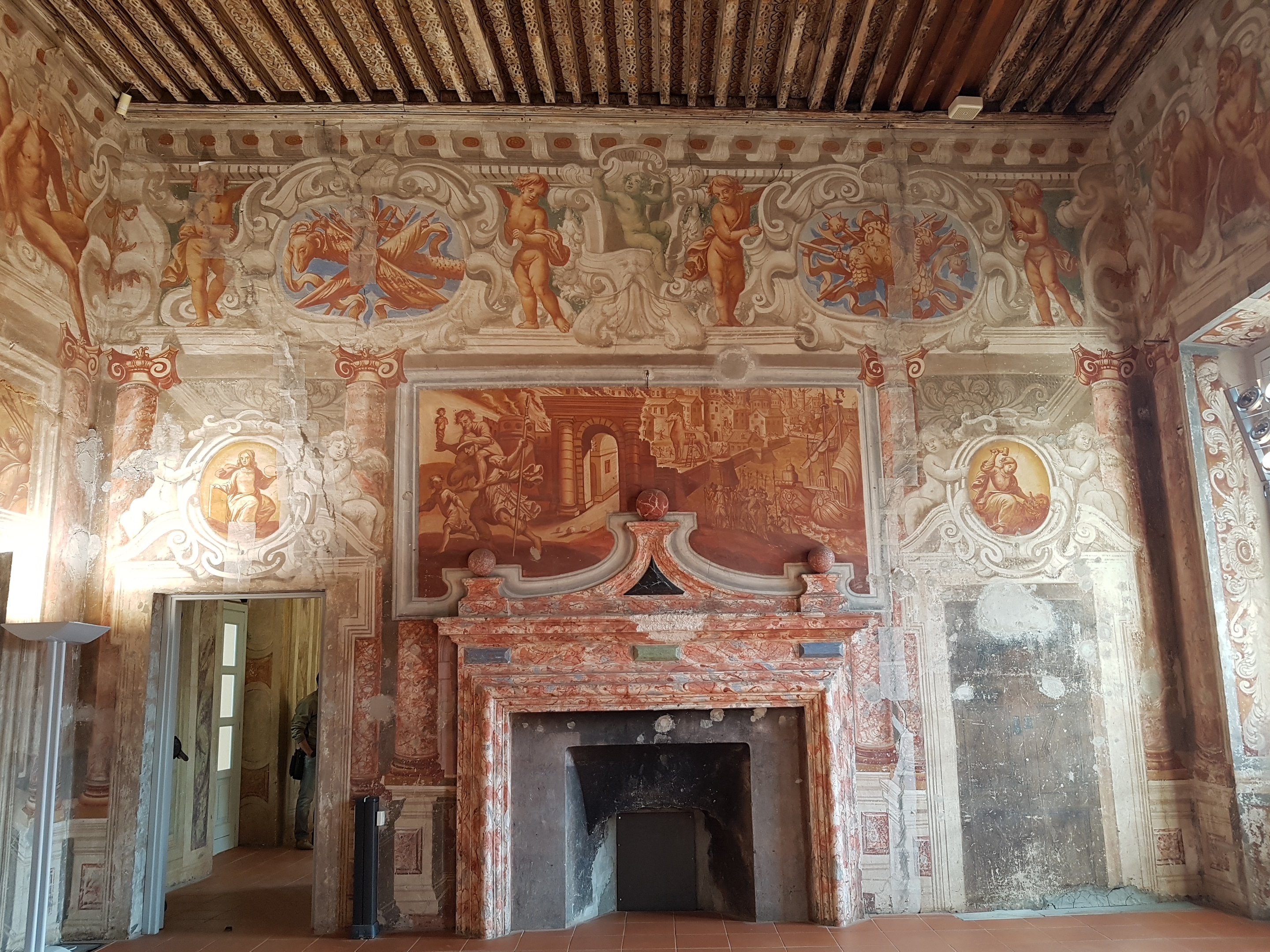 Marini Palace, XVII century, Borgofranco d'Ivrea, Northern Italy